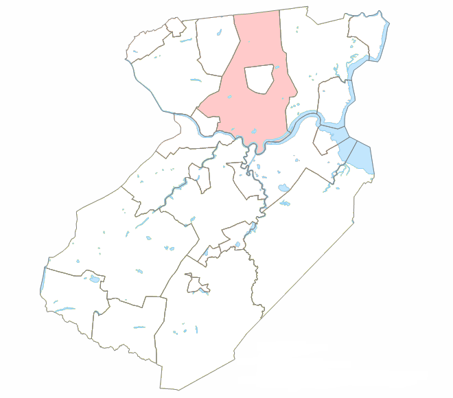 Description: Map of Edison Township in Middlesex County, New Jersey Source: User:Schzmo (own work, Dec. 2006) Adapted from Image:Middlesex County, New Jersey Municipalities.png by Jim Irwin